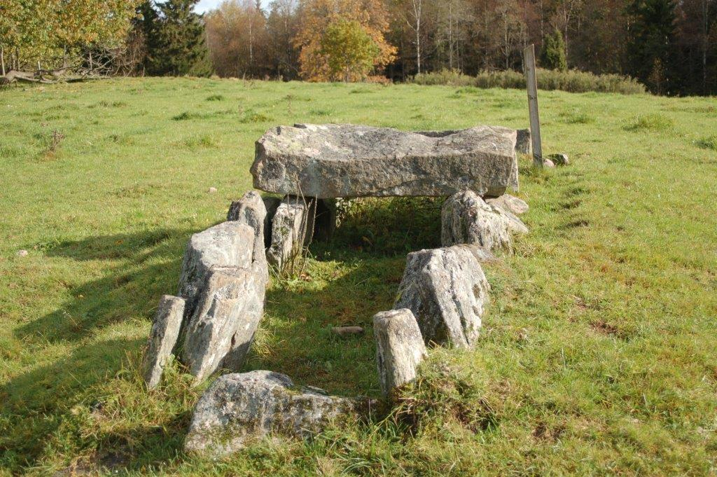 Cist in Marbäck Ulricehamn. Ancient monument